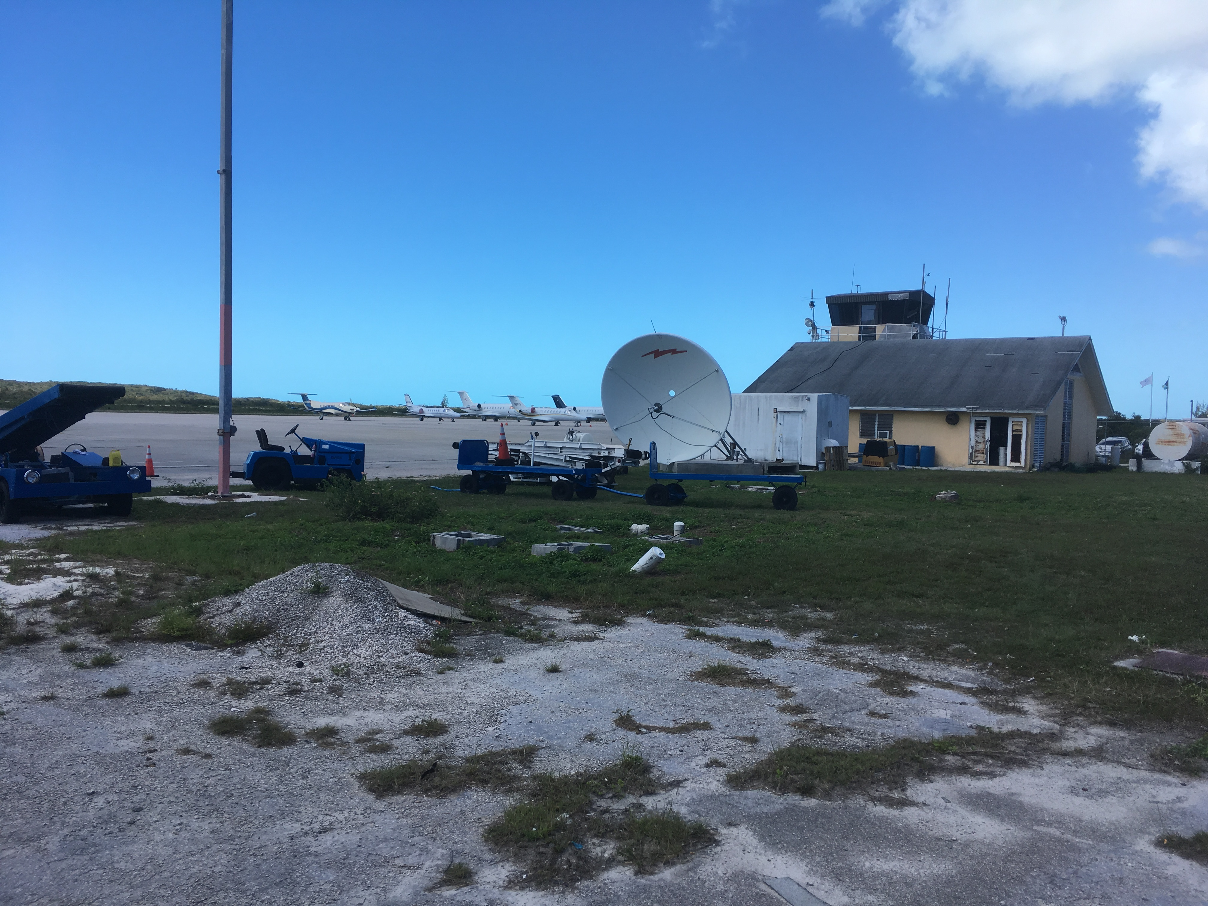 Control tower and equipment at Exuma International Airport in February 2019.